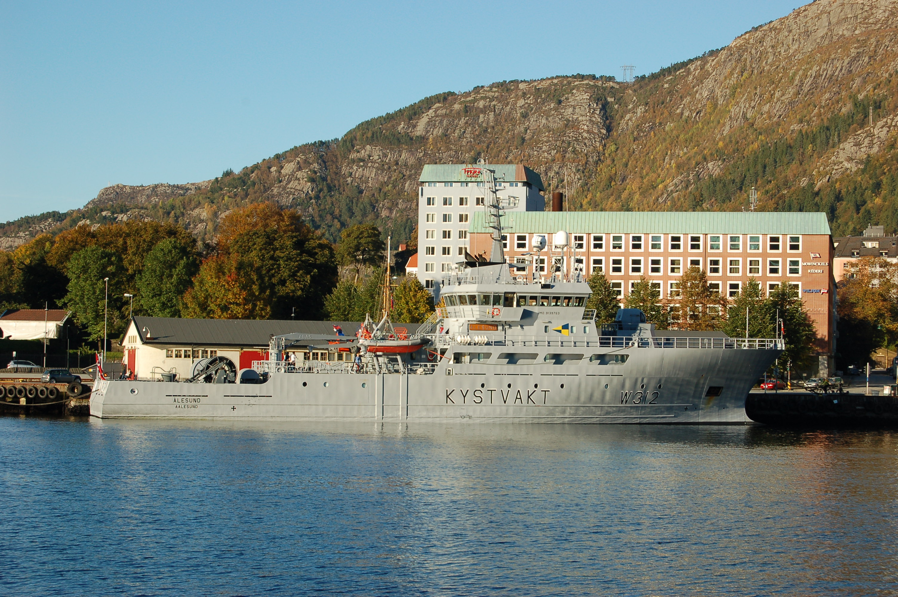 The Royal Norwegian Coast Guard vessel NoCGV Ålesund in Bergen IMO Number: 9139763 MMSI Number: 259337000 Callsign: LHXC Length: 63 m Beam: 12 m